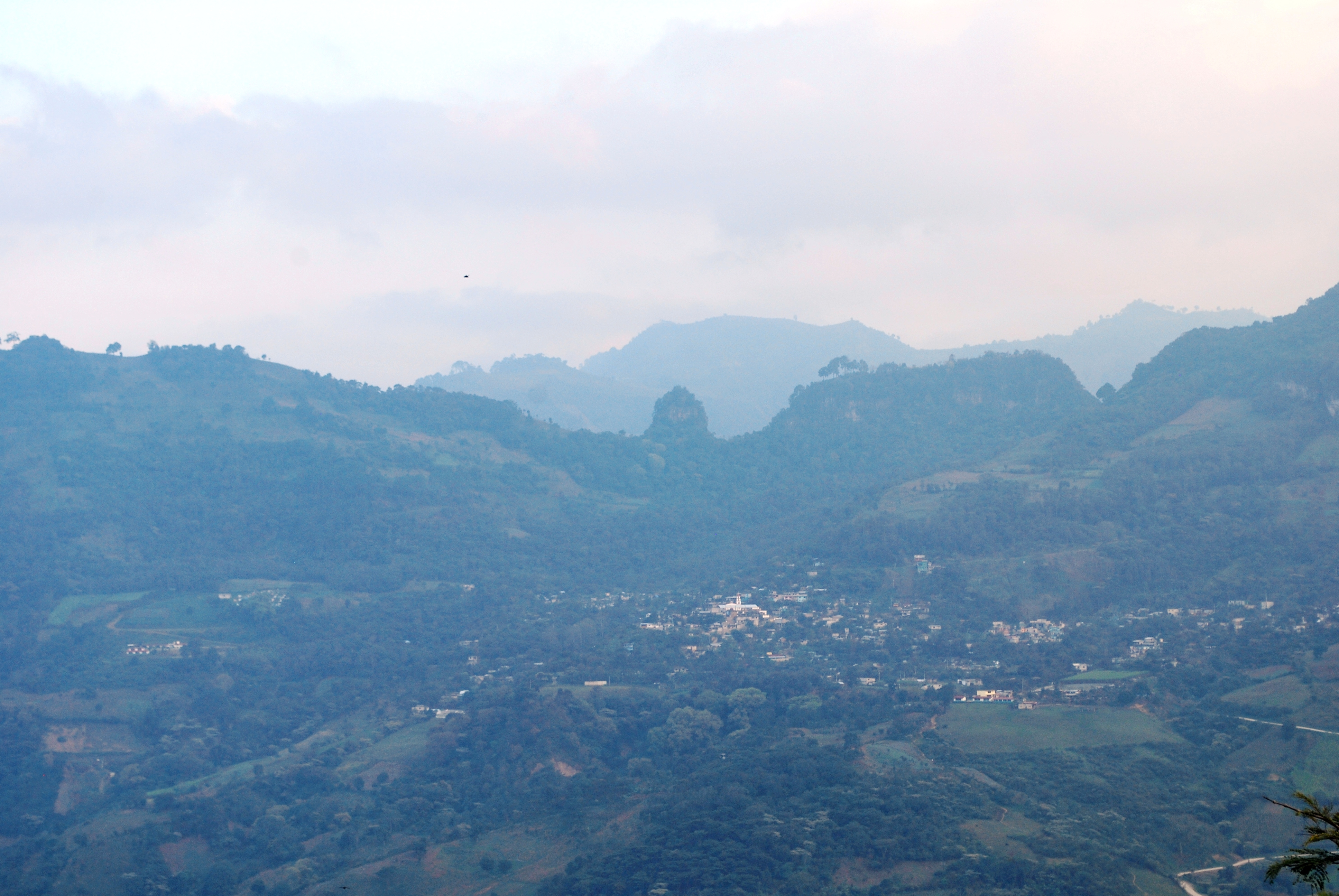 View of the Pahuatlán Valley, Sierra Norte de Puebla, and the town of Pahuatlán del Valle, Puebla state, México.